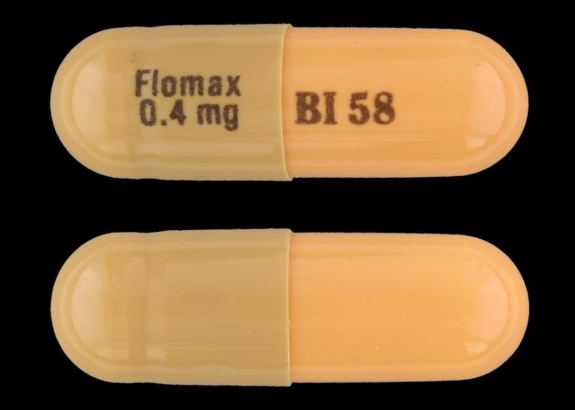 Drug Name: Flomax 0.4 MG Oral Capsule Ingredient(s): Tamsulosin Drug Label Imprint: Flomax;0;4;mg;BI;58 Color(s): Green, Orange Shape: Capsule Size (mm): 19.00 Score: 1 Inactive Ingredient(s): ShowHide methacrylic acid - ethyl acrylate copolymer (1:1) ... methacrylic acid - ethyl acrylate copolymer (1:1) type a / cellulose, microcrystalline / triacetin / calcium stearate / talc / fd&c blue no. 2 / titanium dioxide / ferric oxide red / gelatin Drug Label Author: Boehringer Ingelheim Pharmaceuticals, Inc. DEA Schedule: Non-scheduled